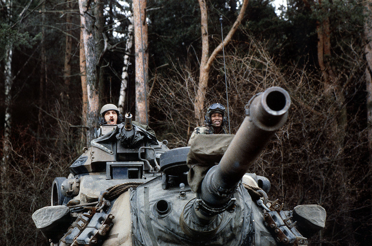 NATO exercises in Nurenberg, Germany January 1986. "A Certain Sentinel" Photo by Nancy Wong